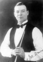 A young Joe Davis, World Snooker Champion